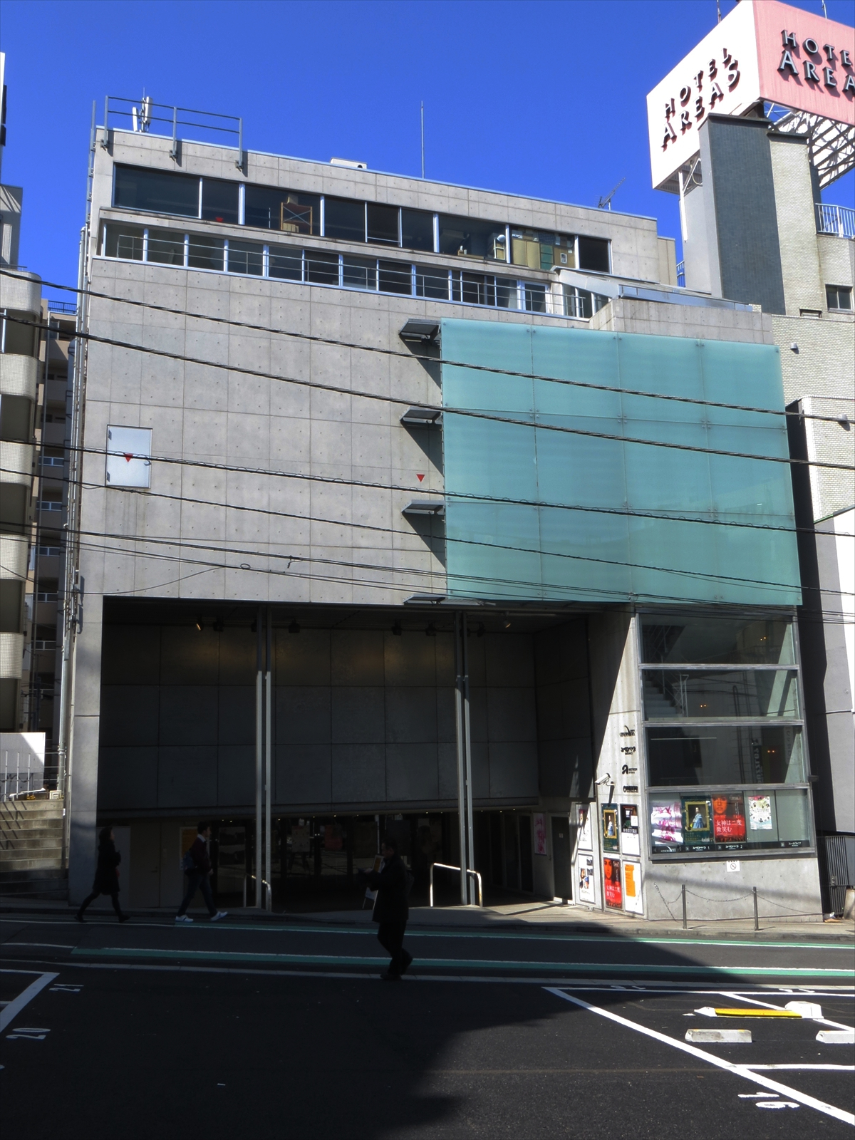 Euro Space (Cinema in Tokyo, Japan), Shibuya.